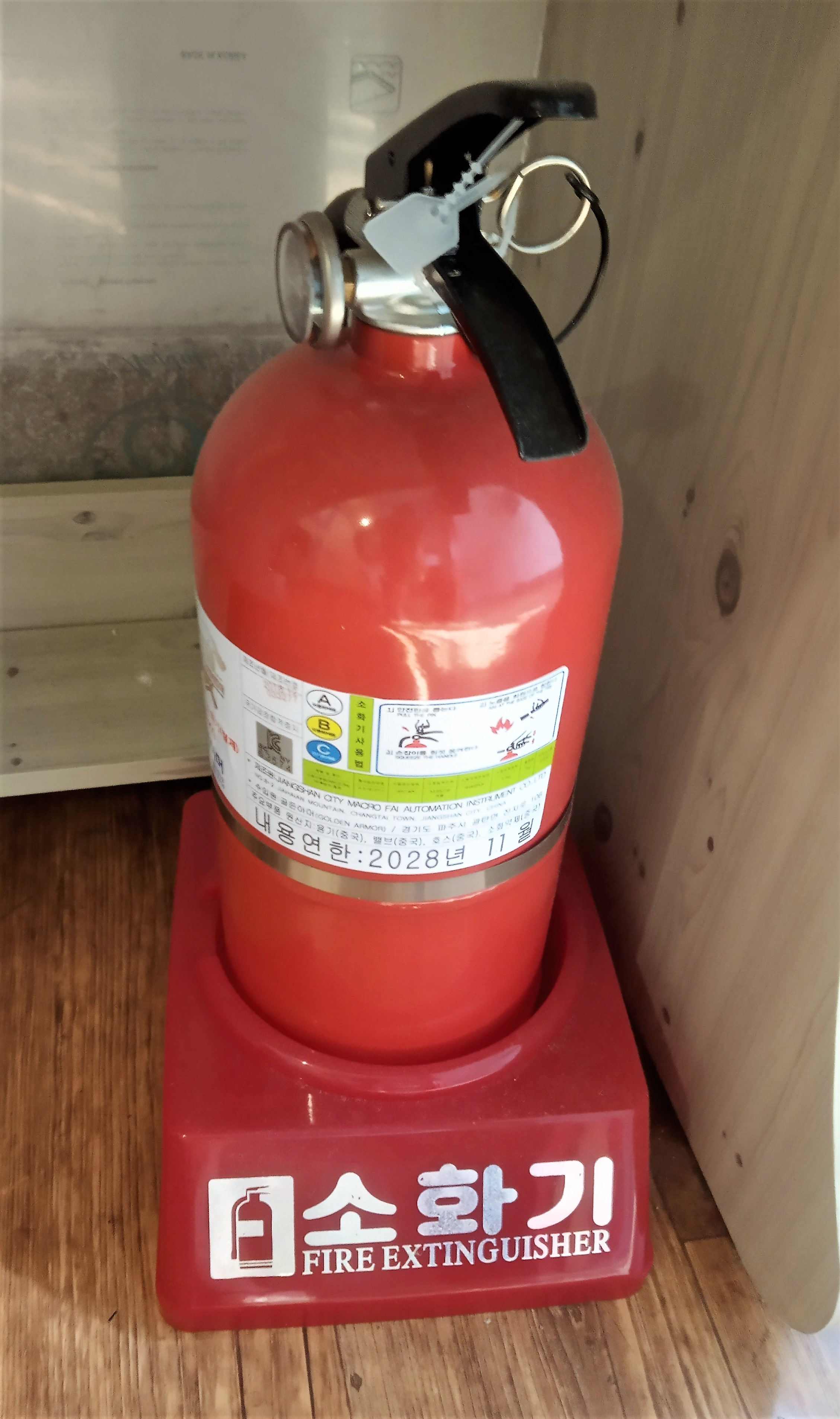 Korean fire extinguisher